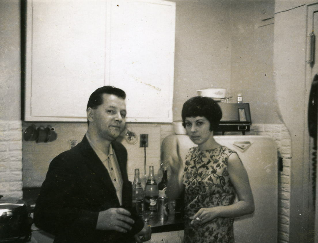 Gene Quill & Pat Sheridan, 339 West 48th st. NYC 1963